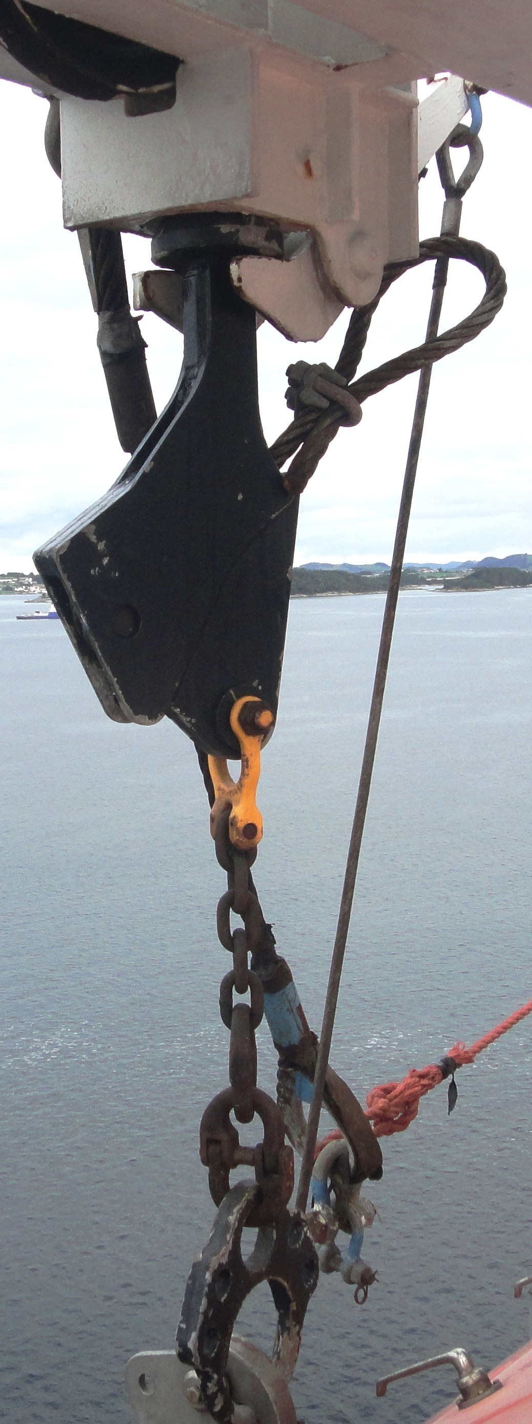 Wedge socket of lifeboat with lashing arm